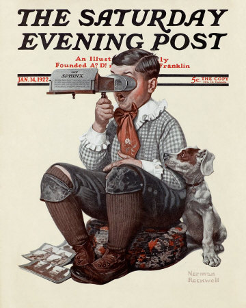 Norman Rockwell's Boy with Stereoscope, the cover of the 14-January-1922 issue of The Saturday Evening Post.